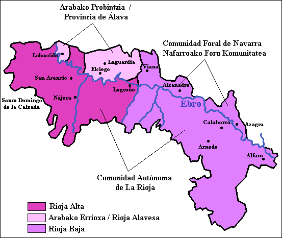 The three principal regions of the Rioja are the Rioja Alavesa/Arabako Errioxa, Rioja Alta and Rioja Baja. Most of the territory subjected to the Rioja Protected designation of origin is in La Rioja region, a part of the territory is in Alava and another part is located in Navarre